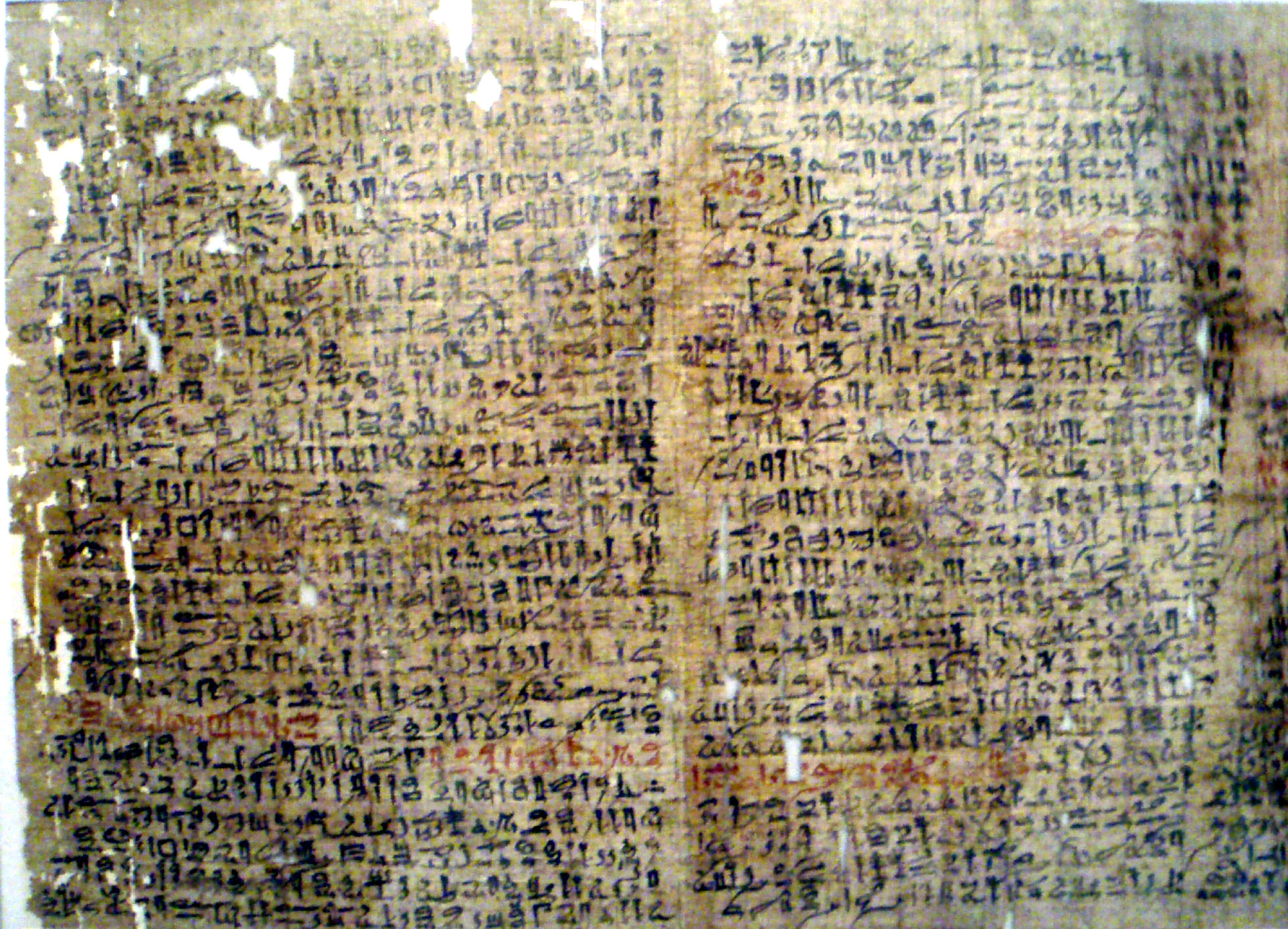 Merged photos depicting a copy of the Ancient Egyptian papyrus commonly known as "The Westcar Papyrus", sometimes also known by the longer name "Three Tales of Wonder from the Court of King Khufu", written in hieratic text. Photo(s) taken at the Altes Museum, Berlin, later merged and cropped using PhotoShop. Catalog number: P 3033.